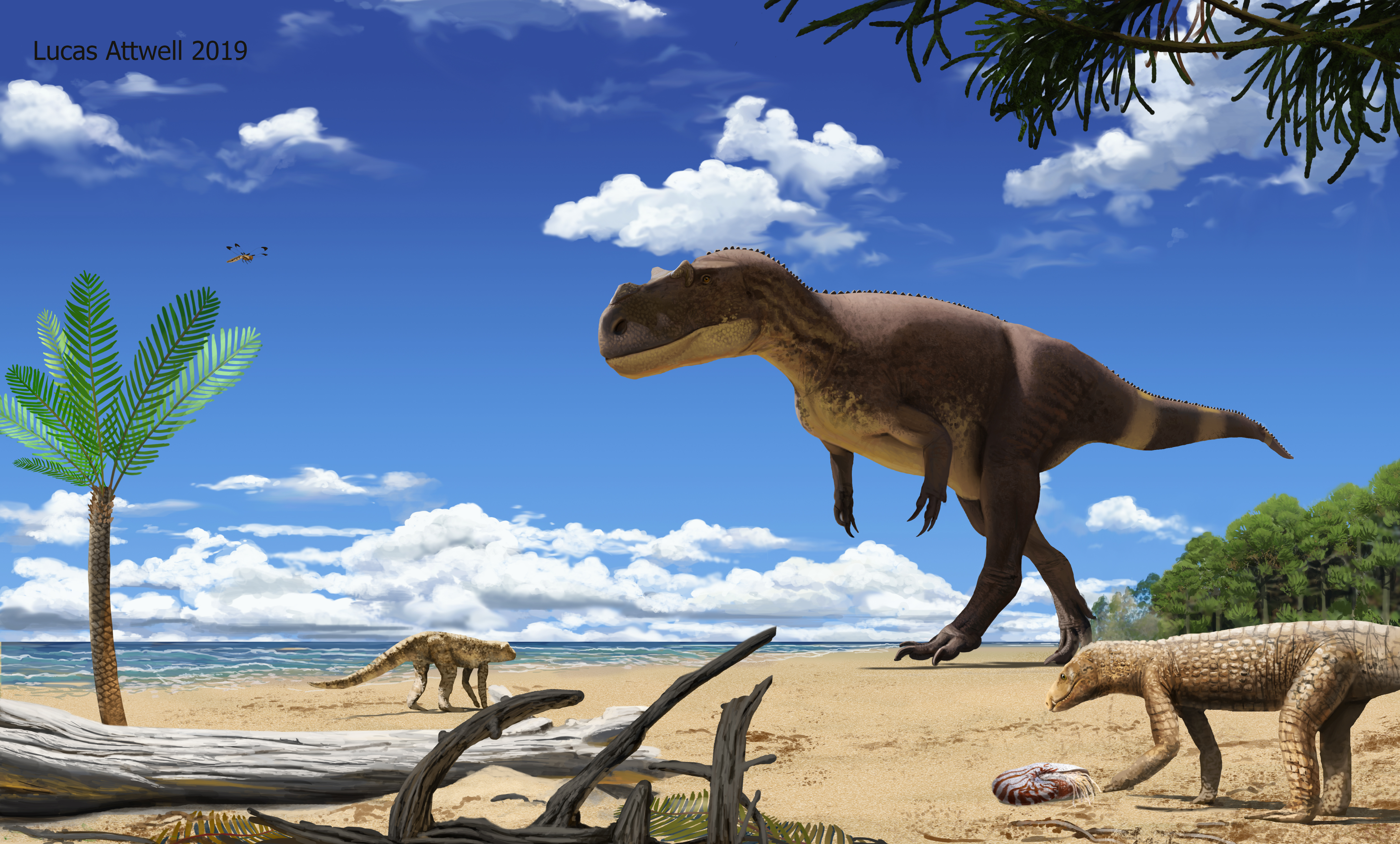 A huge Ceratosauroid theropod from the Early Jurassic of Italy. "Discovered on 1996 by Dal sasso et at. Saltriovenator was classified on several Theropod families, from Coelophysoidea ( Roger B. J. Benson, 2010, S. 131–146) to Allosauriade, looking more to be an species related to Sinosaurus triassicus or Cryolophosaurus, thus a basal tetanuran.Finally, on 2018, was named Satriovenator zanellai and classified as a ceratosaur. Saltriovenator can be on the biggest predators found on Europe, with an holtype of around 7,8-8 m (Disputed), considering an adult about a maximum of 8,5 m with an 75-80 cm head. It is the earliest theropod with confirmed only three digits on the hands.This restoration shows the environment of the Saltrio formation (Lombardy, Italy) at the late Sinemurian (191 Ma). Saltrio formation is believed to be an ancient beach, due to the presence of nautiloids and Brachiopods. Includes the gigantic predator wandering while two Crocodrylomorhps (aff. Species indeterminate) roaming the scene looking for washing death Nautiloids of the genus Cenoceras ( C. F. Parona. 1897. I Nautili del Lias inferiore di Saltrio in Lombardia. Bullettino della Società Malacologica Italiana 20,7-20 ). The flora is partially inspired on the finds of the Rotzo Formation and the Osteno". The Absence of skull ornamentation is due to the non find of a complete skull, is based on Ceratosaurus nasicornis Skull.